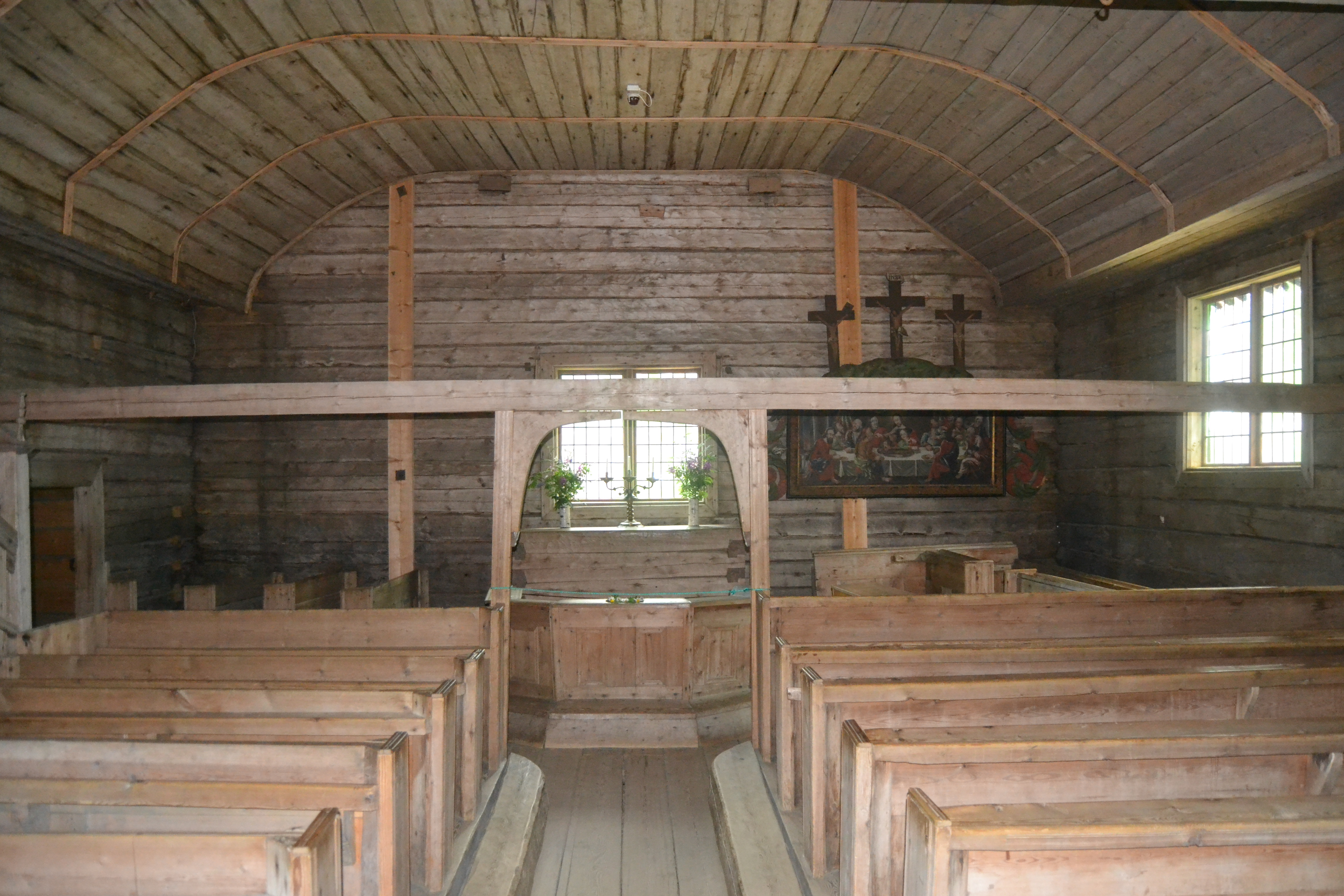 Interior of Sodankylä Old Church in Finland